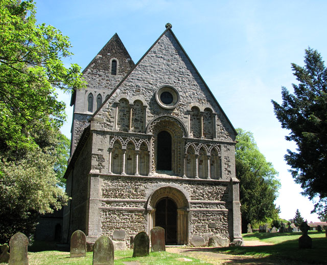 Norman west front of St Lawrence's parish church, Castle Rising, Norfolk